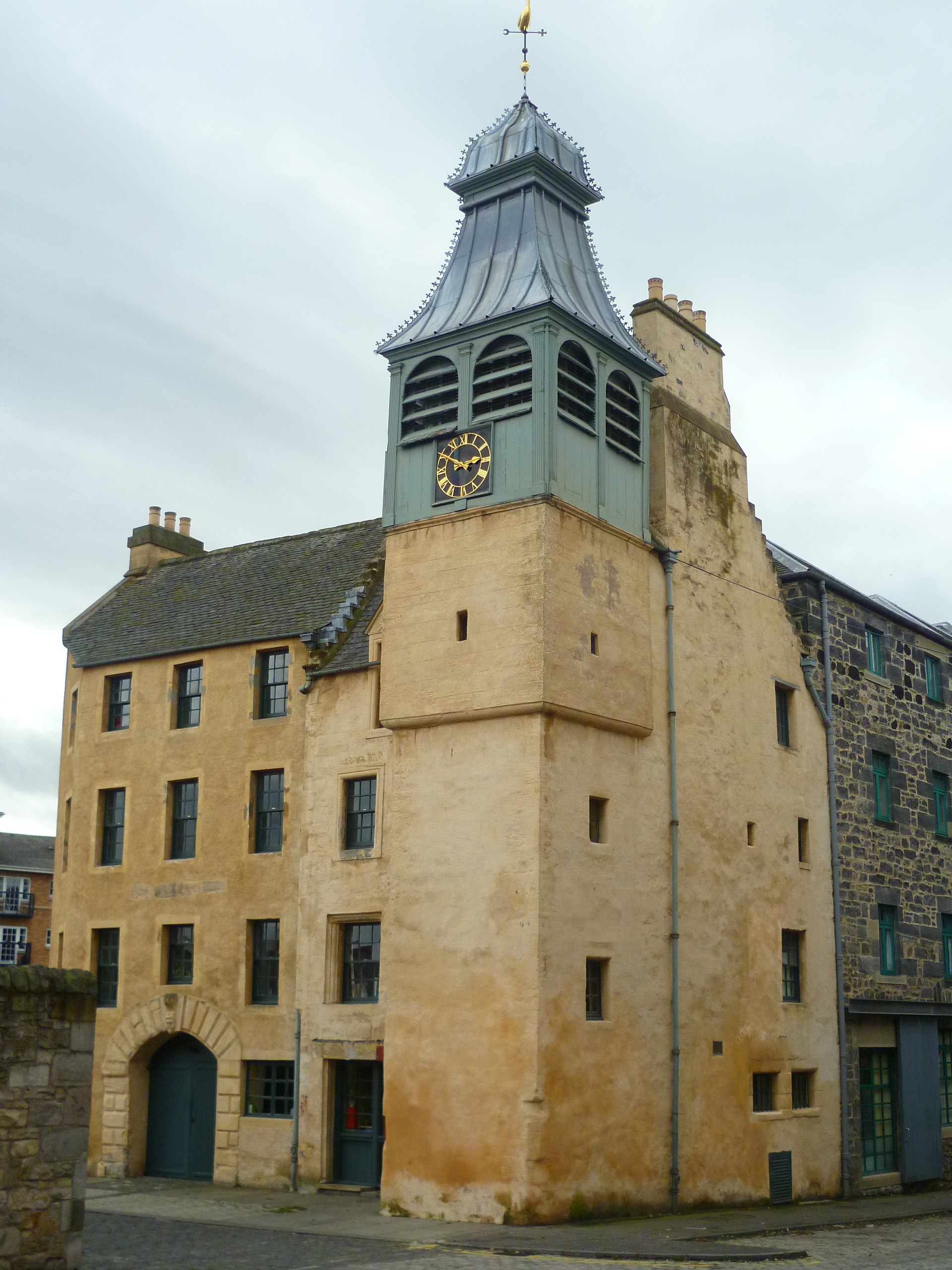 The manse was attached to St. Ninian's Church which stood on the site now occupied by a disused sugar bond immediately behind it. On a map of Leith by Greenvile Collins c.1693 the church is one of only three buildings rendered pictorially. The manse is now an architect's office.